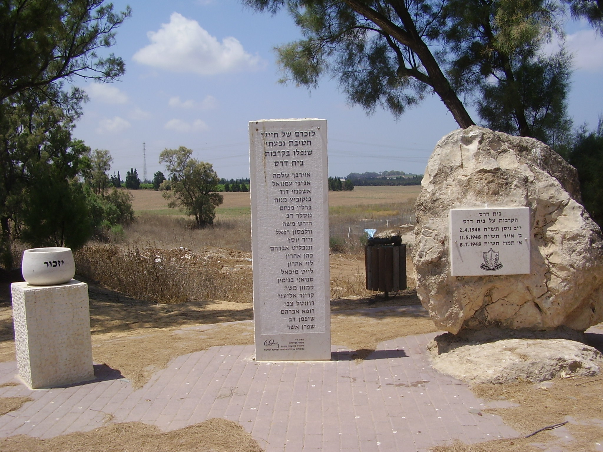 Giv\'ati Brigade Memorials in Moshav Giv\'ati